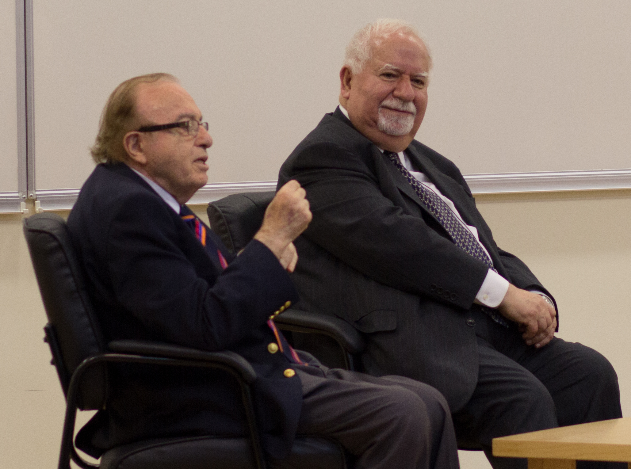 Mihran Agbabian (left) and Vartan Gregorian in conversation at the American University of Armenia.